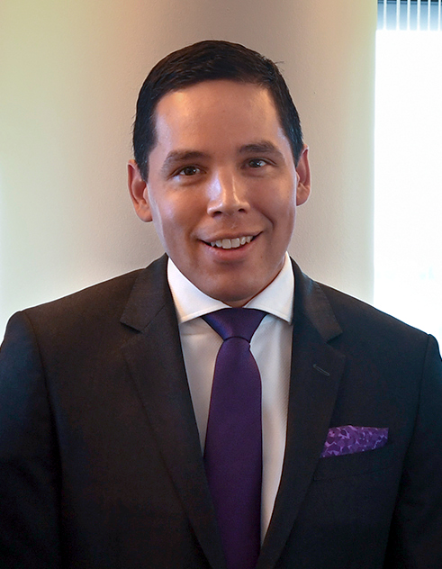 Minister Catherine McKenna, President of the Inuit Tapiriit Kanatami, Natan Obed, Secretary Sally Jewell, Bruce Heyman U.S. Ambassador to Canada